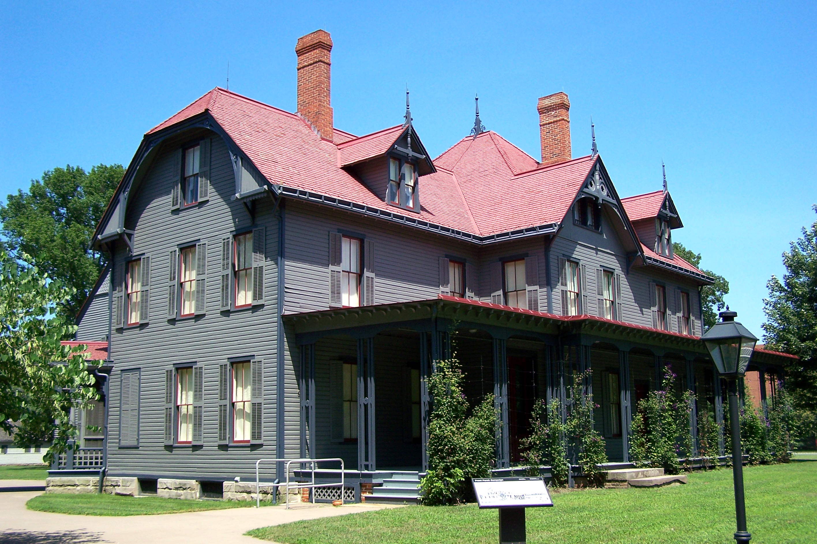 James A. Garfield National Historic Site, 8095 Mentor Ave. Mentor